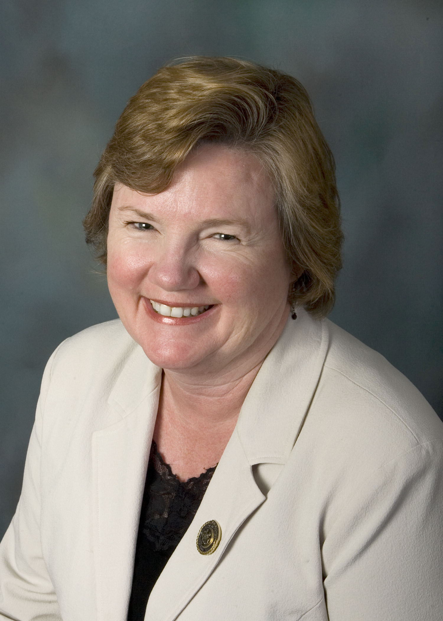 Portrait of Pennsylvania State Representative Kate M. Harper.